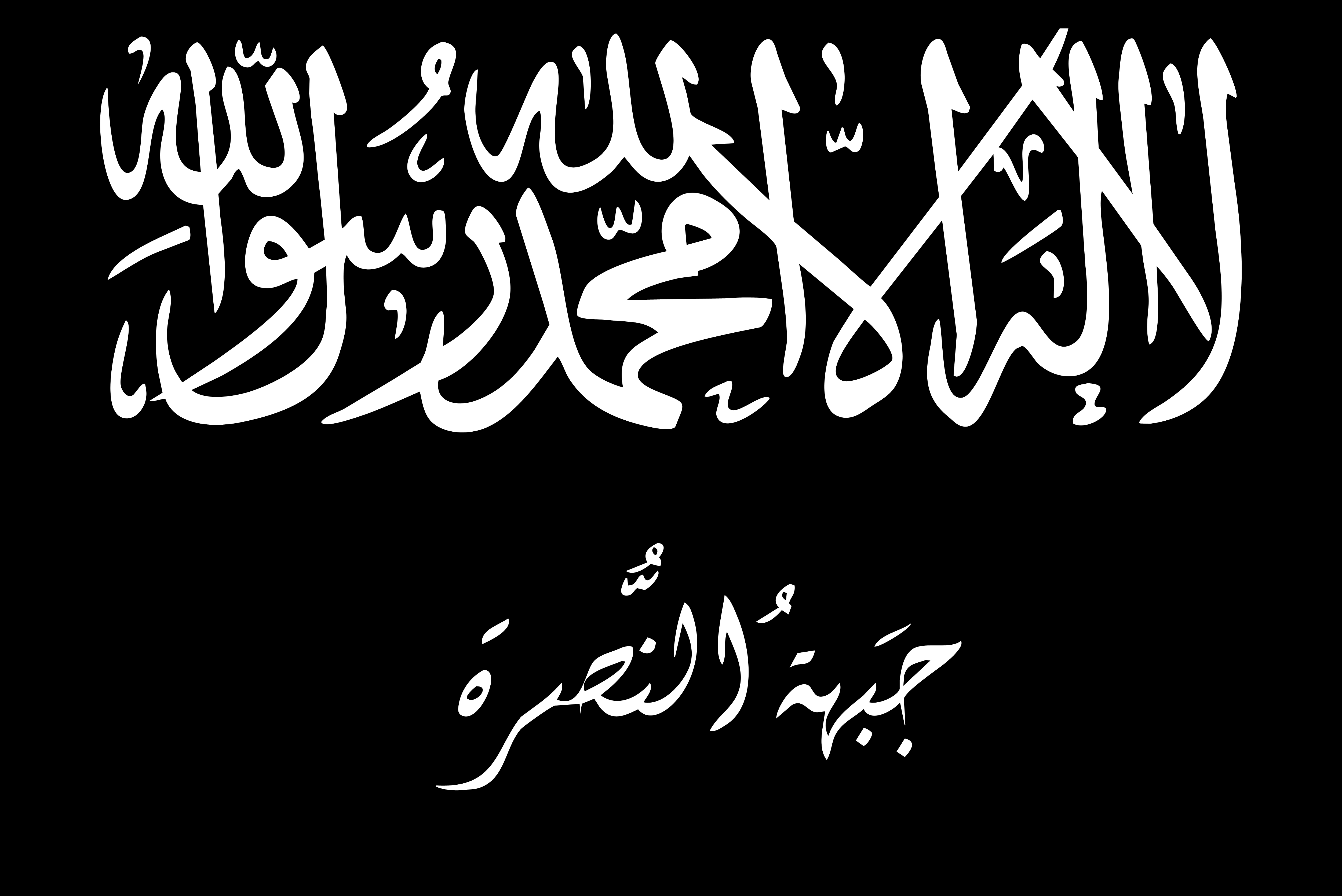 Flag of Jabhat al-Nusra (2011-2013)